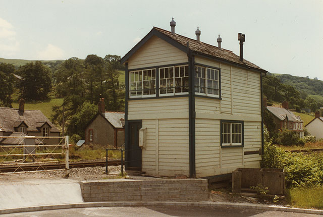 Cemmaes Road signal box Following the building of the road visible in the foreground, and the consequent closure of the level crossing, this had just become redundant. I believe it was later dismantled and transferred to a preserved railway. It was a standard GWR design which would have been prefabricated at the company's Reading works before being transferred and erected on this site, replacing the original box built by the Newtown & Machynlleth Railway. This particular model had an internal staircase.